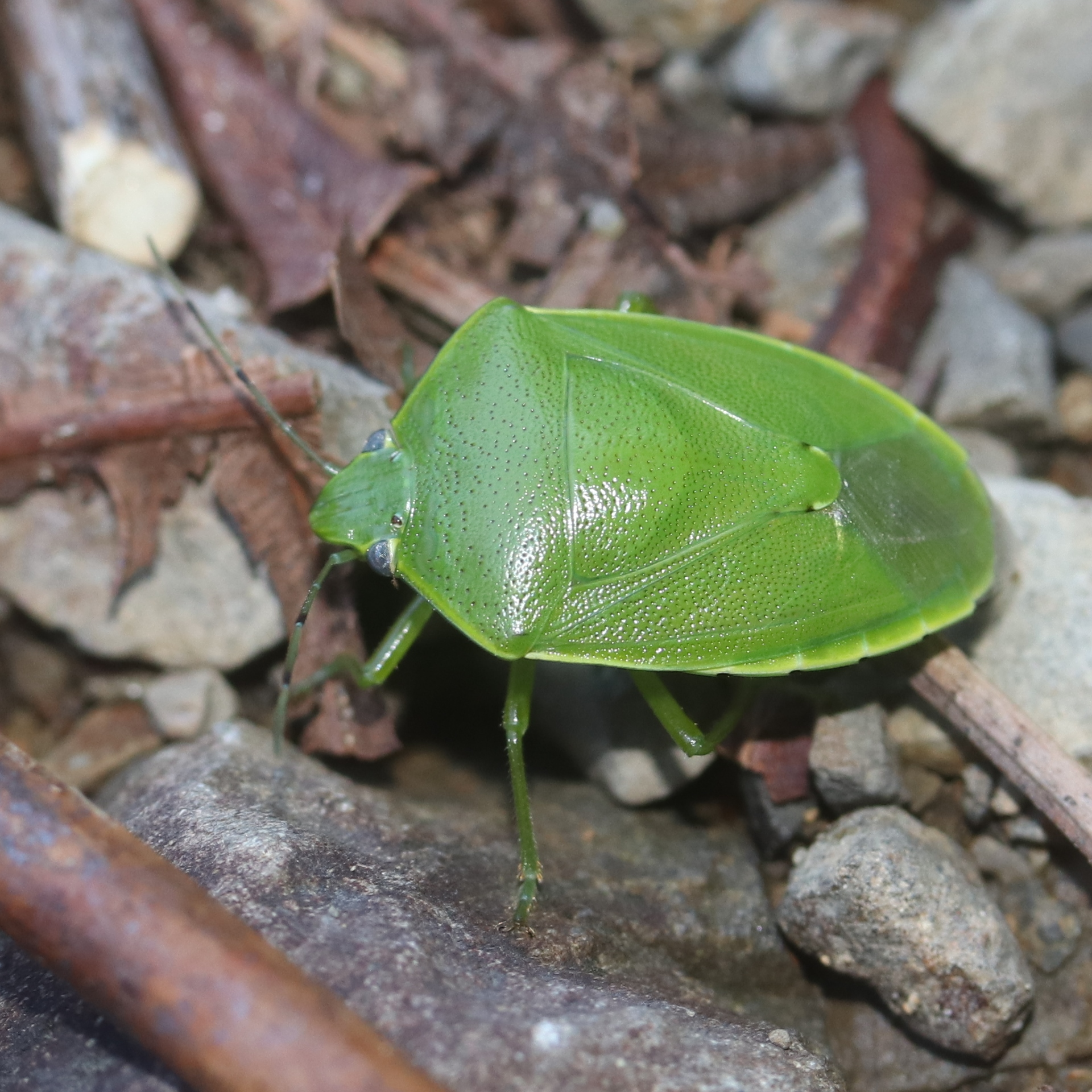 Glaucias subpunctatus in Mount Tengura, Owase, Mie Prefecture, Japan.